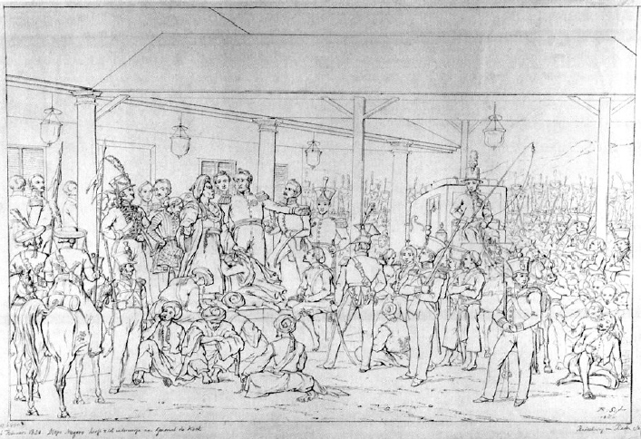 Raden Saleh, Arrest of Diponegoro sketch (in preparation for his painting The Arrest of Pangeran Diponegoro